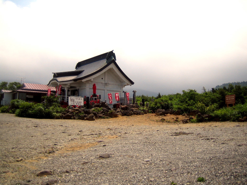 Zao temple at Sainokawara, Miagi